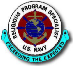 Seal for the U.S. Navy Religious Program Specialists (RPs), the enlisted personnel who assist Navy chaplains.